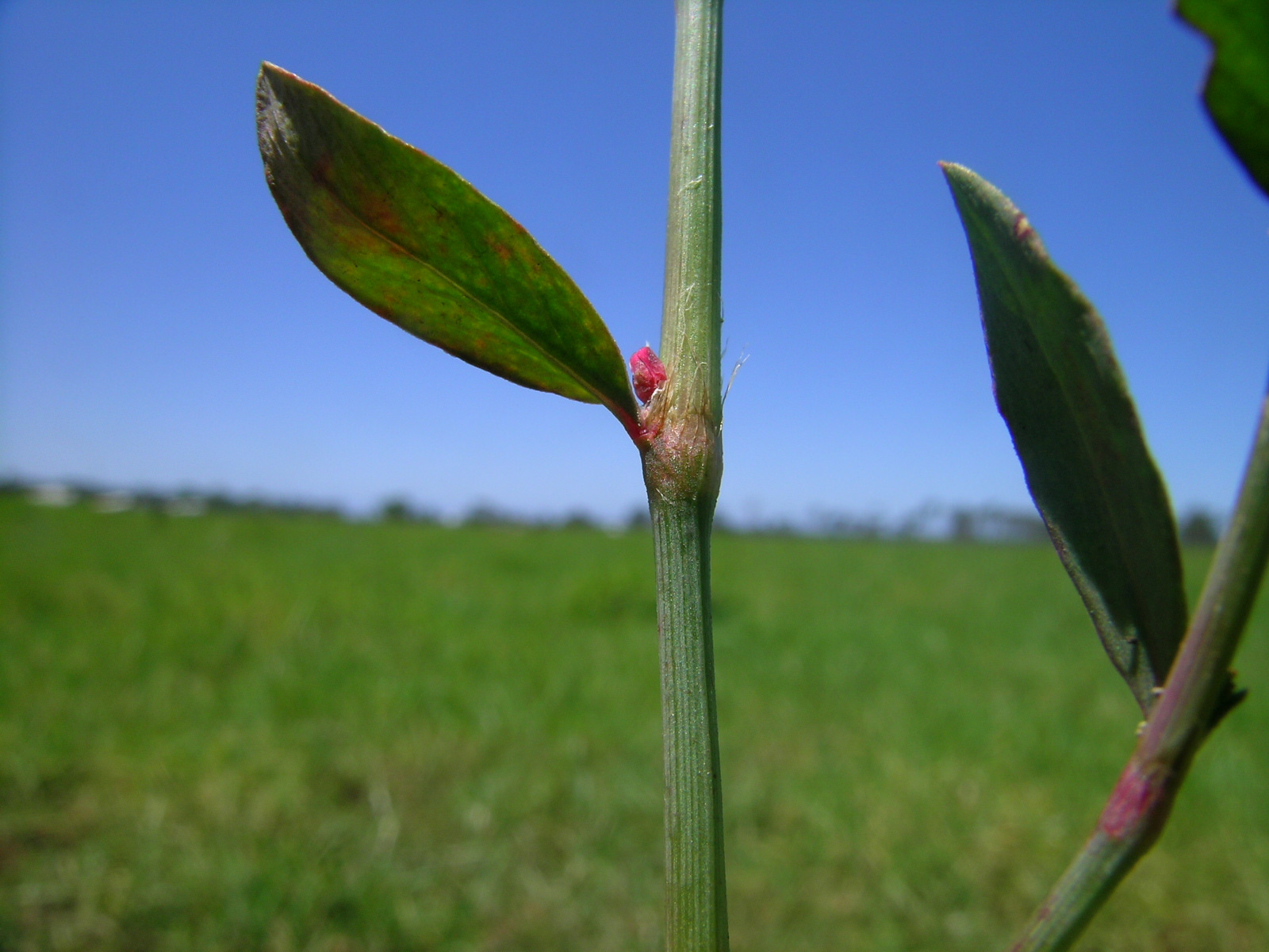 Introduced, warm-season, annual or biennial, mat-forming herb, with a deep taproot. Stems are prostrate, to 1 m long and arise from the one point. Leaves are all the same size, hairless, blue-green and 8-30 mm long. Flowers are small (1.8-3 mm long), pink or white and solitary or in small clusters in the leaf axils. Flowering is in spring and summer. A native of Europe, it is a weed of disturbed areas, particularly roadsides, wasteland, cropping paddocks, gateways and degraded pastures. An indicator of poor ground cover. Can form dense mats in newly sown pastures and is a weed of summer fallows or summer crops such as lucerne. Strongly competitive, it has vigorous seedlings with a strong tap root; mature plants inhibit the germination of many seedlings (allelopathic effect) particularly medic species. May be grazed by cattle and sheep, usually without a problem, but seeds can cause photosensitization in cattle and enteritis in all types of livestock; leaves occasionally cause dermatitis. Controlled with healthy vigorous pastures. Registered herbicides are available for control.